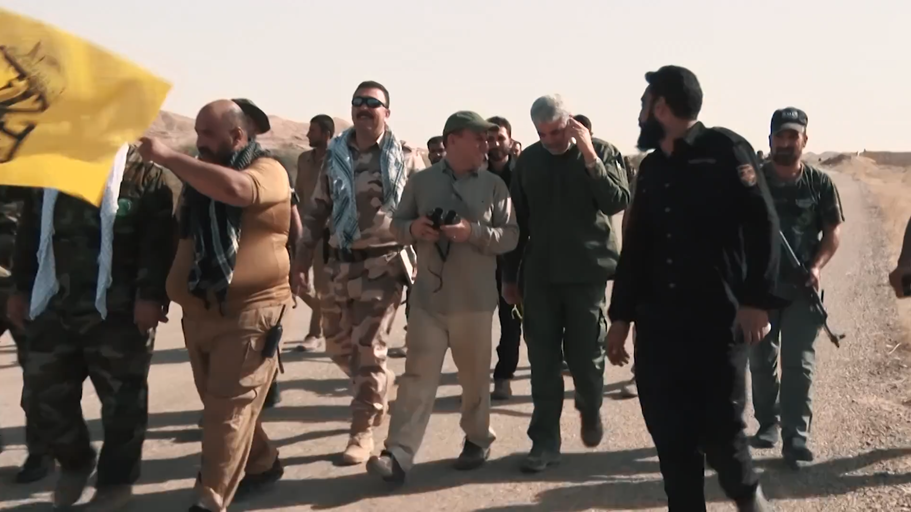 Popular Mobilization Forces with Iranian advisors during Hawija offensive in 2017.